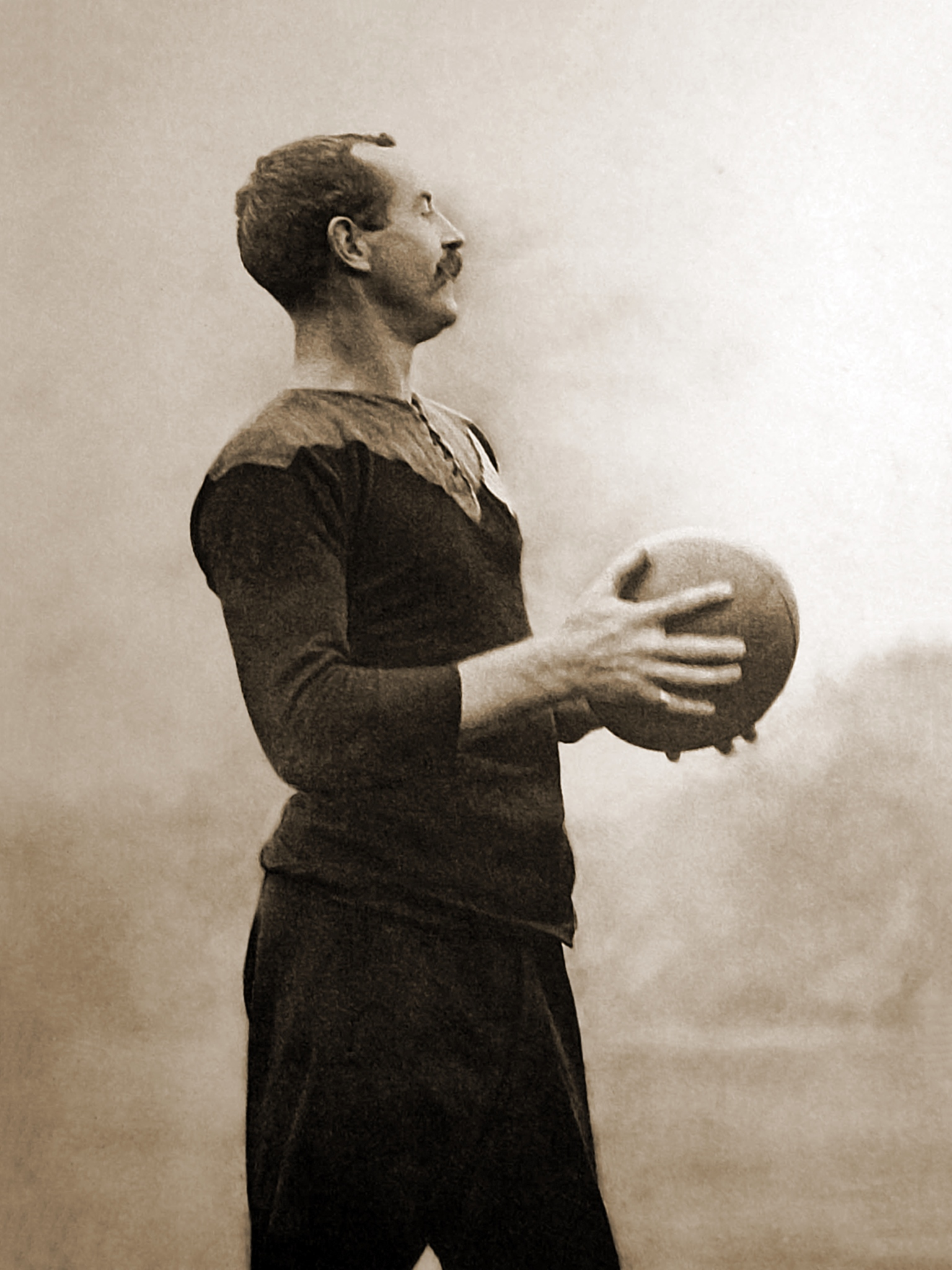 Dave Gallaher, captain of the Original All Blacks during their 1905 tour.